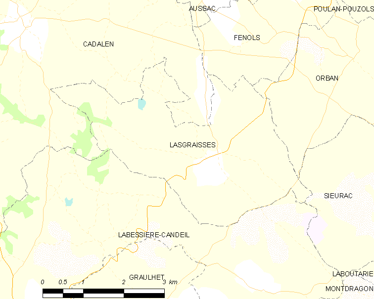 Map of French municipality Lasgraisses